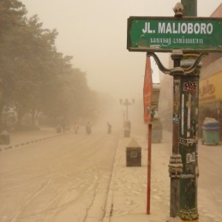 Malioboro Yogyakarta affected by the eruption of Mount Kelud